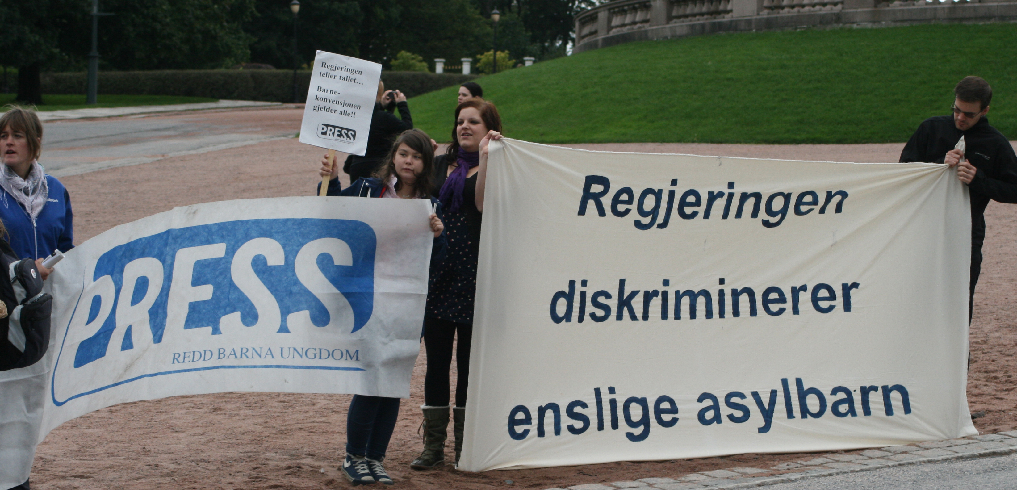 Demonstrating for the rights of asylum seeking children (Oslo, Norway 2008)